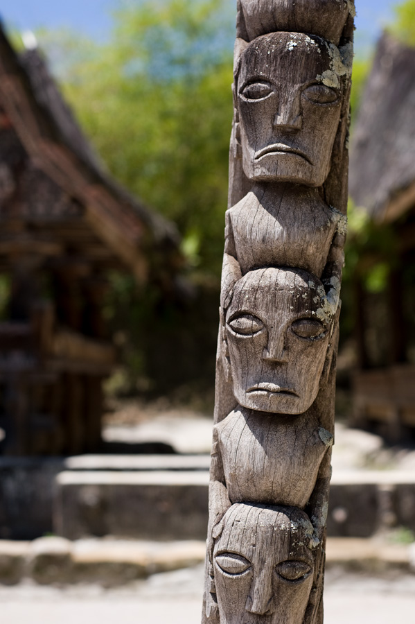 middle part of a batak totem pole in simanindo, samosir island, lake toba, sumatra